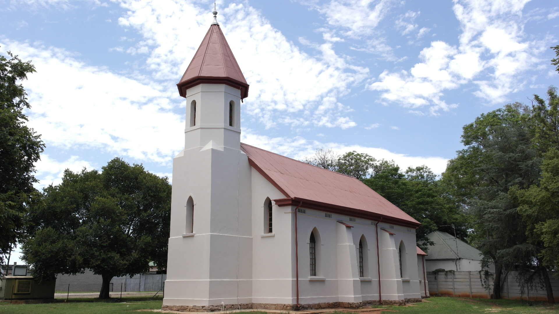 Old Lutheran Church, Kroondal, Rustenburg district This media shows a South African Protected Site with SAHRA file reference 9/2/263/0008.